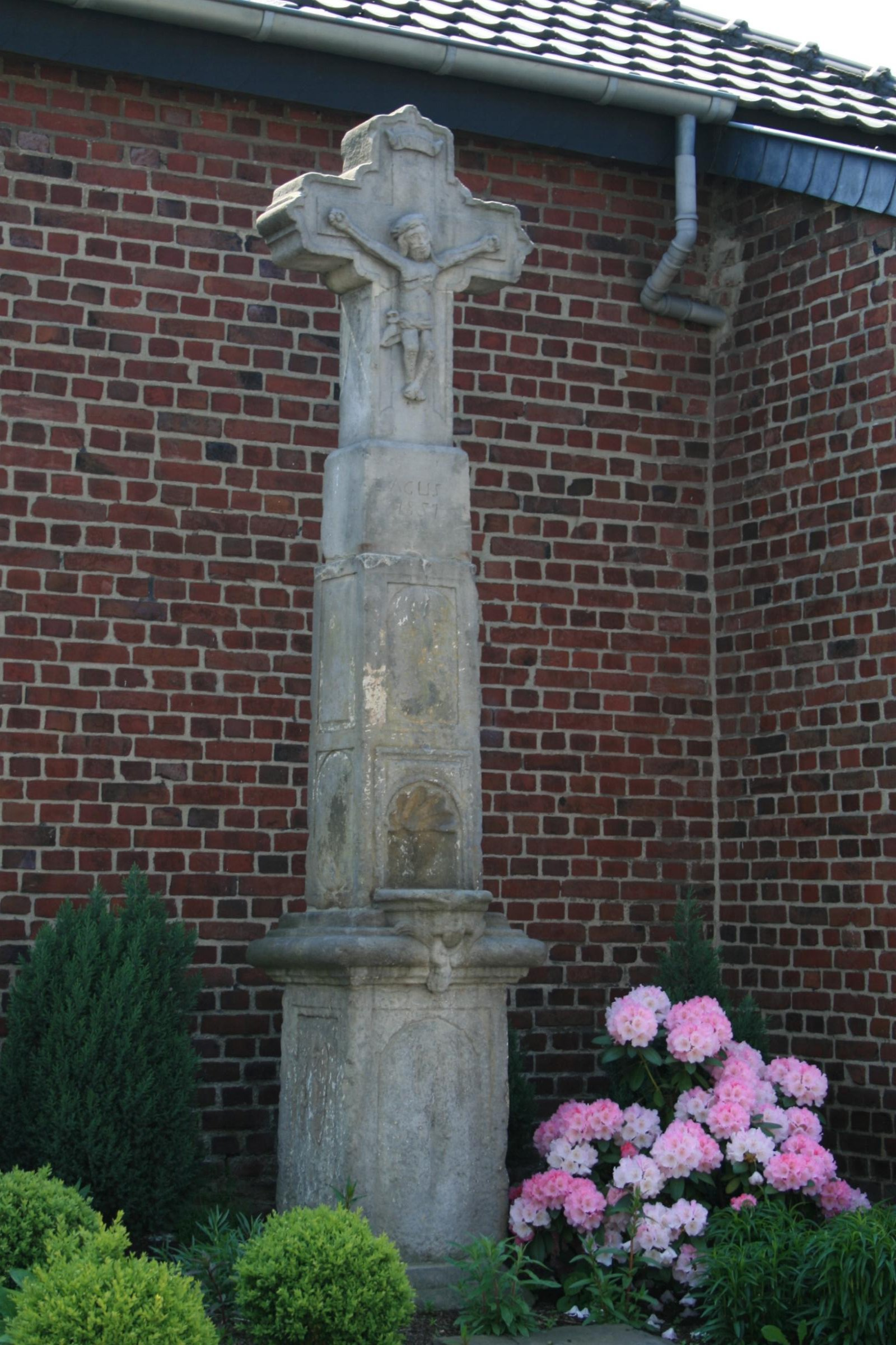 Cultural heritage monument No. K 071 in Mönchengladbach